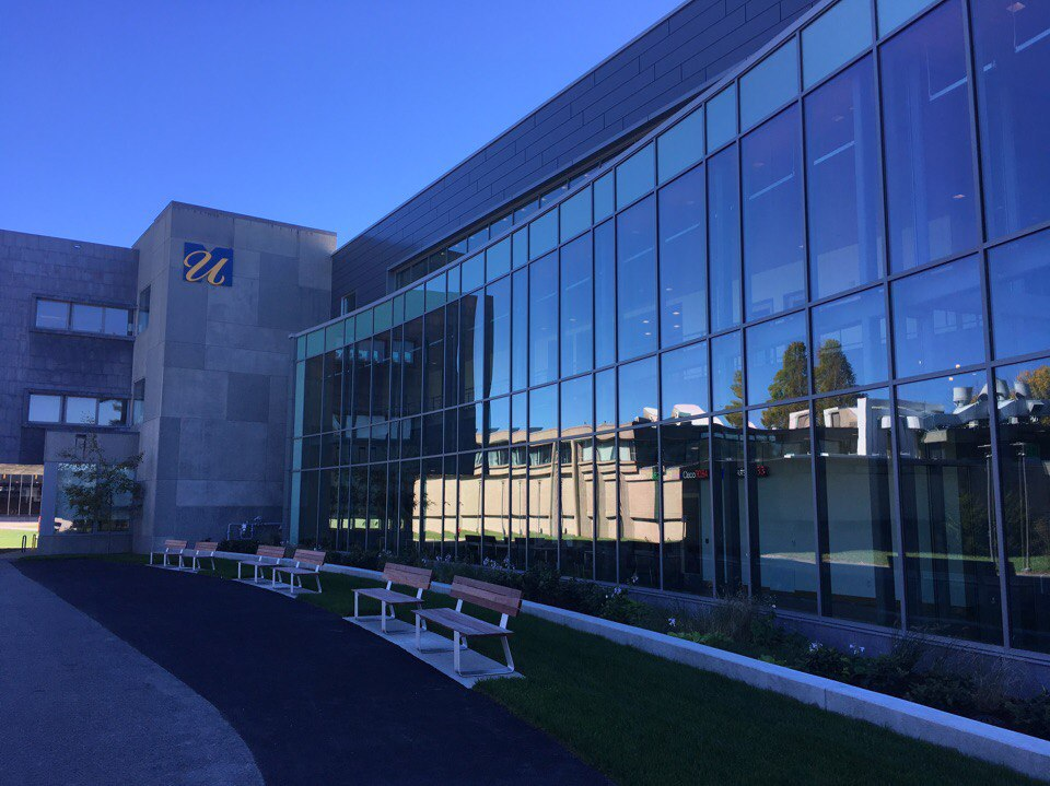 Expanded Building of the Charlton College of Business in 2016